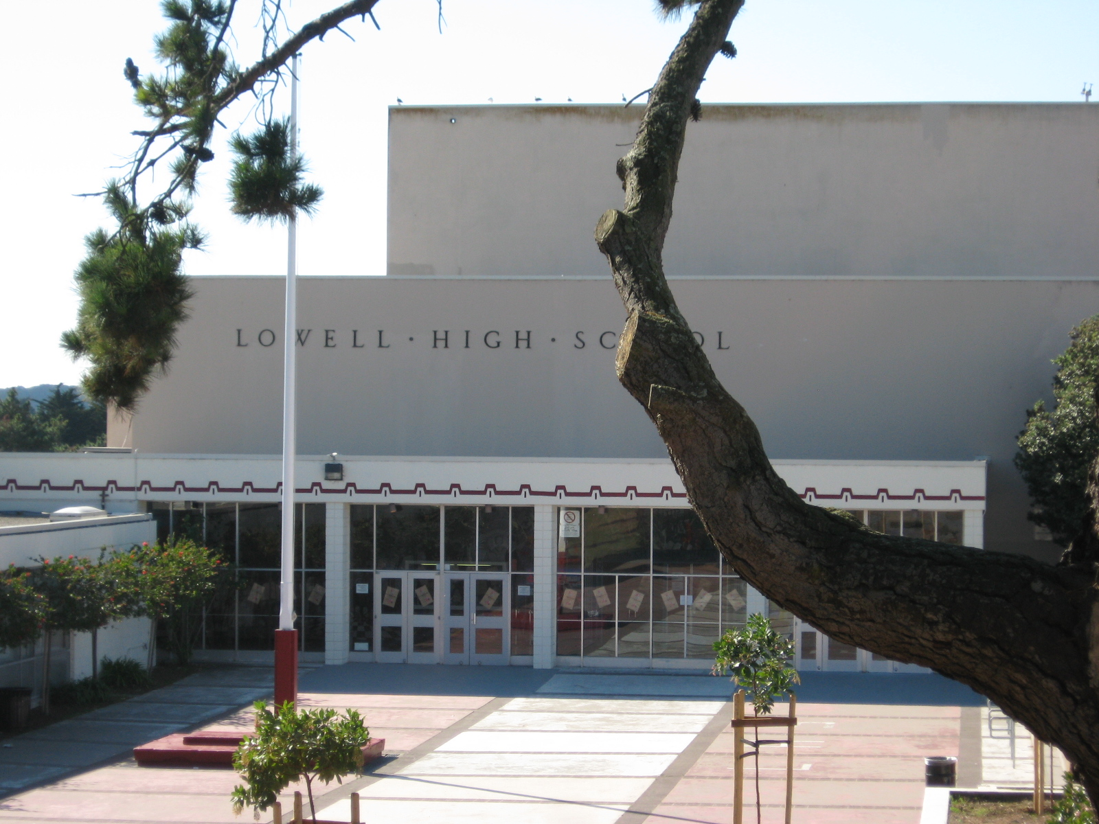 Lowell High School's Main Entrance